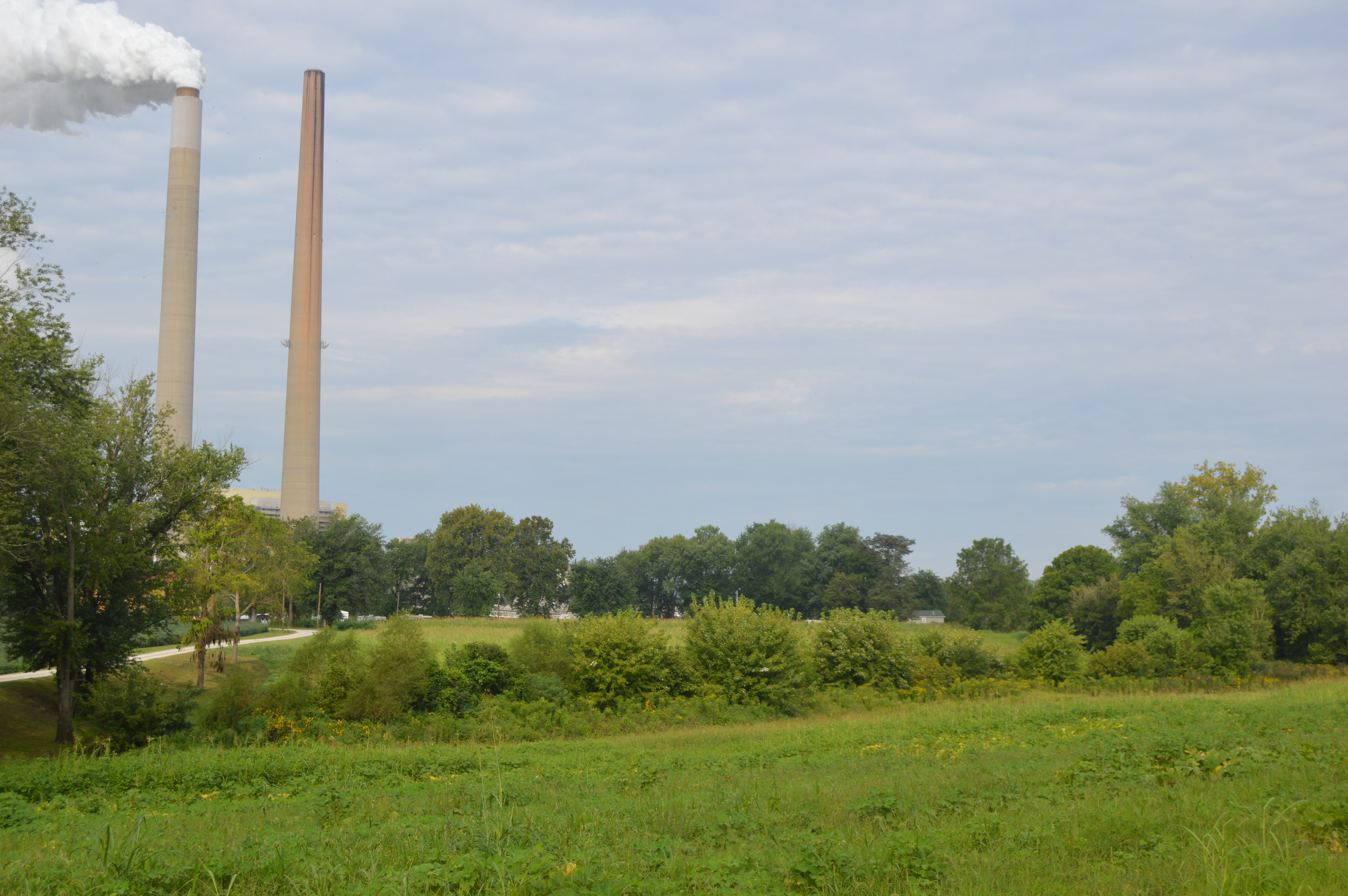 Fields on the western side of State Route 681 just northwest of Darwin in Sutton Township, Meigs County, Ohio, United States. In the background are the chimneys of the AEP Mountaineer Power Plant in Mason County, West Virginia.